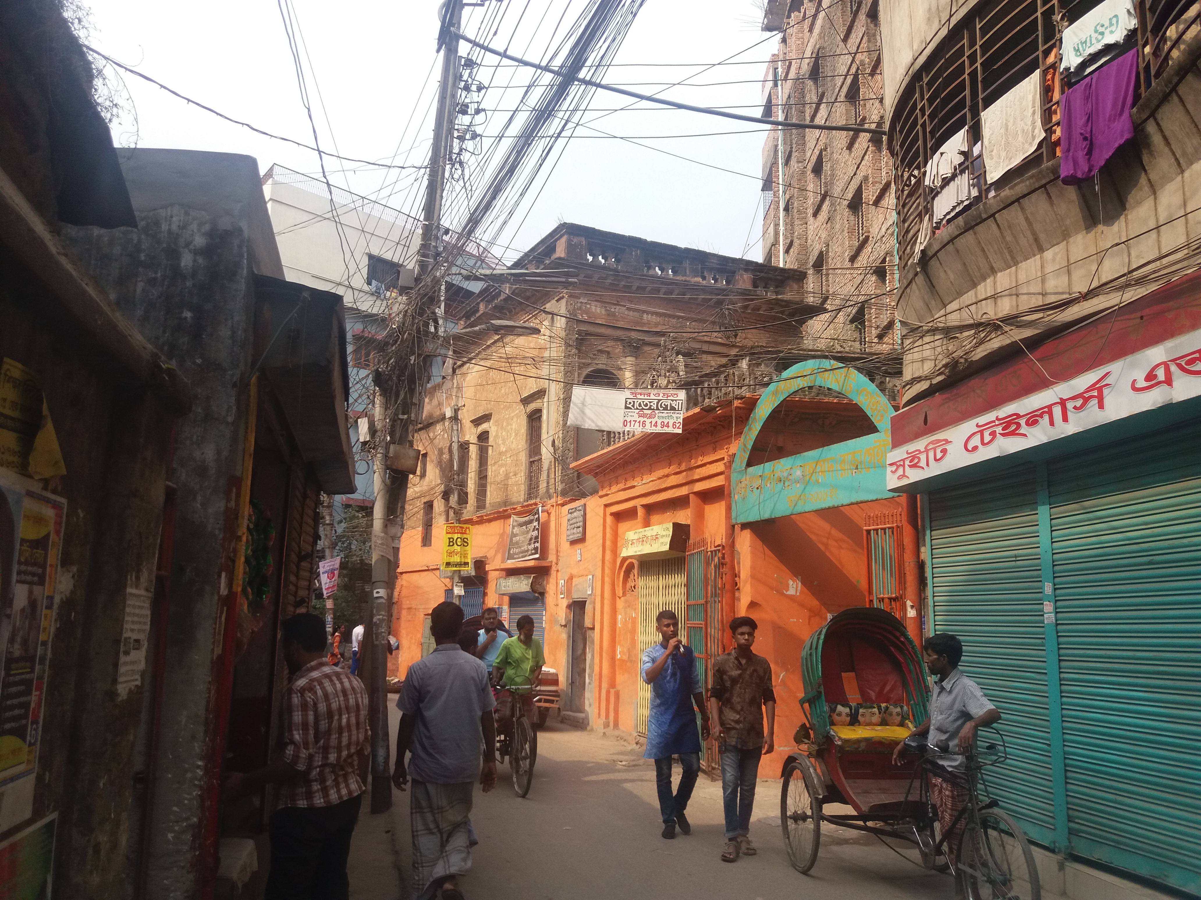 A heritage road in Dhaka city